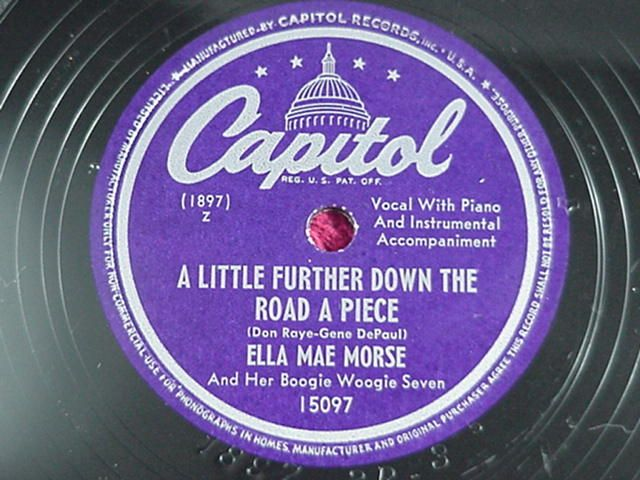 Ella Mae Morse single